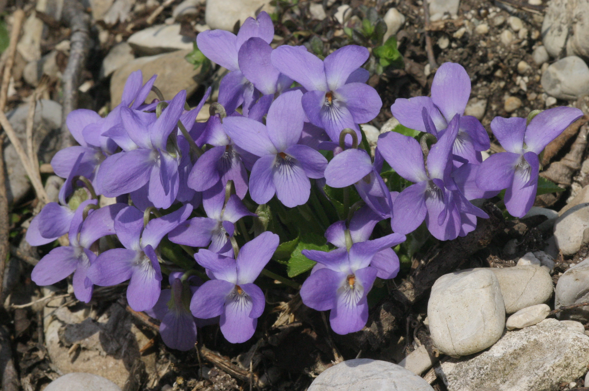 Viola hirta